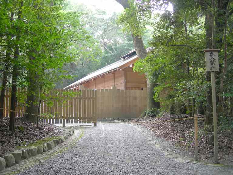 Imibiya-den is a Hall of the sacred fire to prepare the food for Kami in Toyoukedaijingu(Geku) at Ise city, Mie prefcture, Japan.